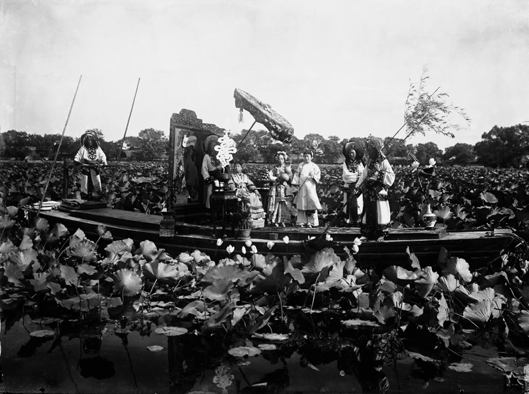 The Empress Dowager Cixi and attendants on the imperial barge on Zhonghai, Beijing 1903-1905.